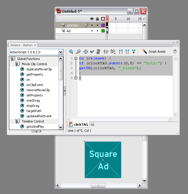 Example of click tag programmed into a banner ad.